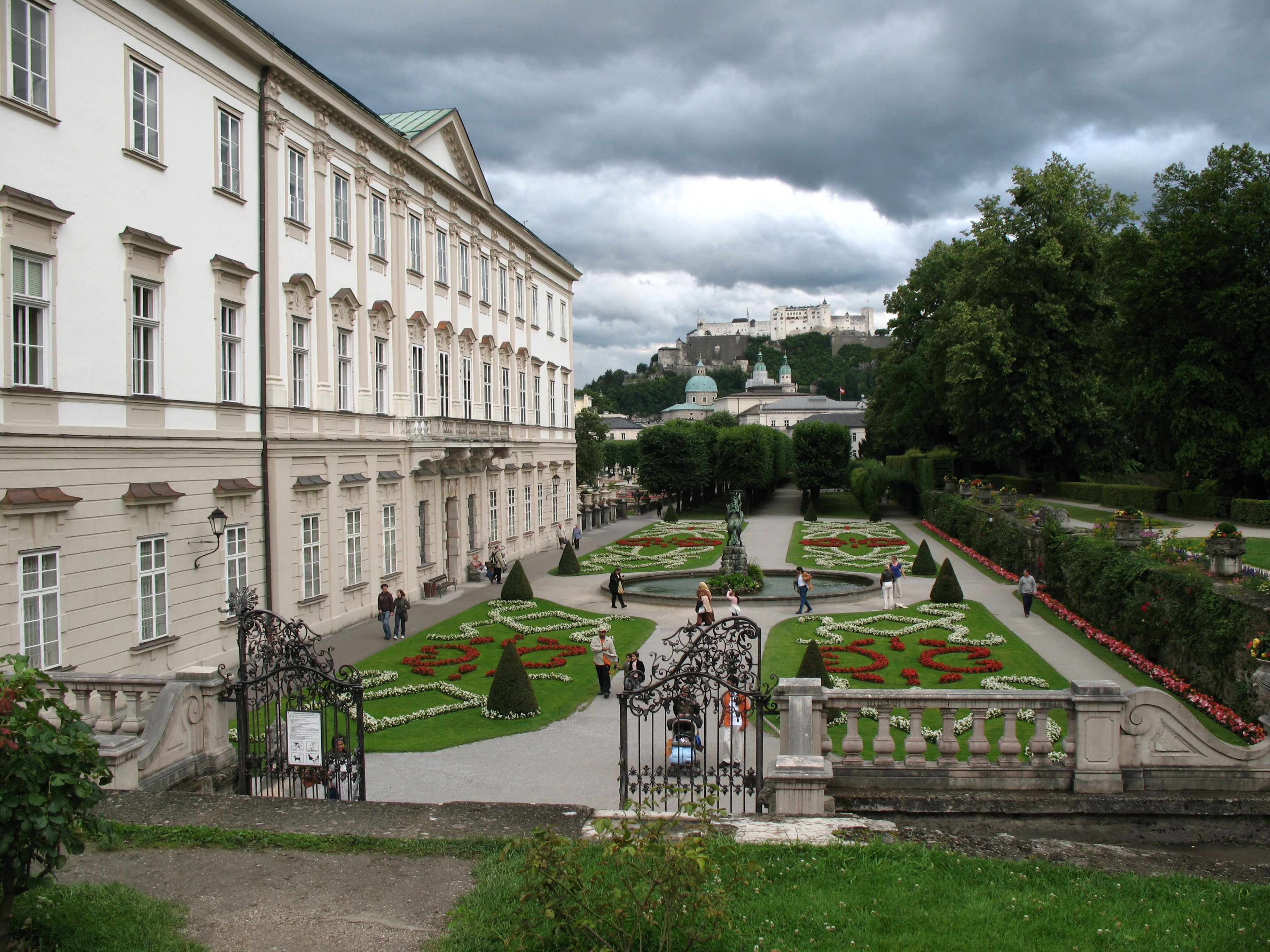 Austria, Salzburg, Mirabell Palace